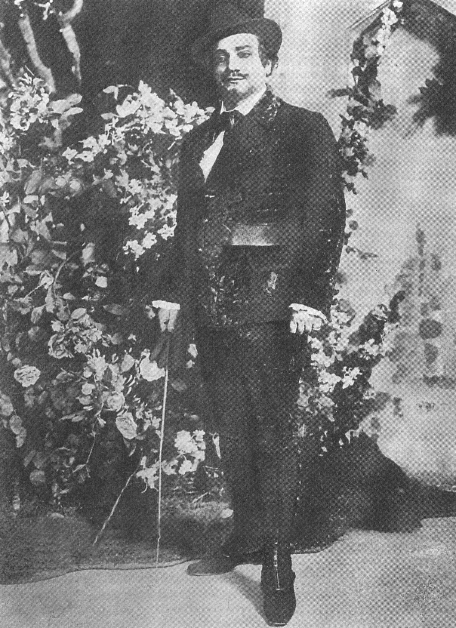 Gustave Charpentier - Julien - Enrico Caruso as Julien - MET 1914